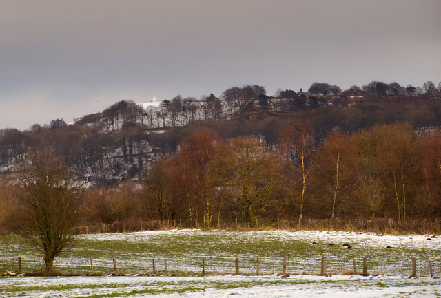 Kerridge Ridge and White Nancy Monument From Clarke Lane